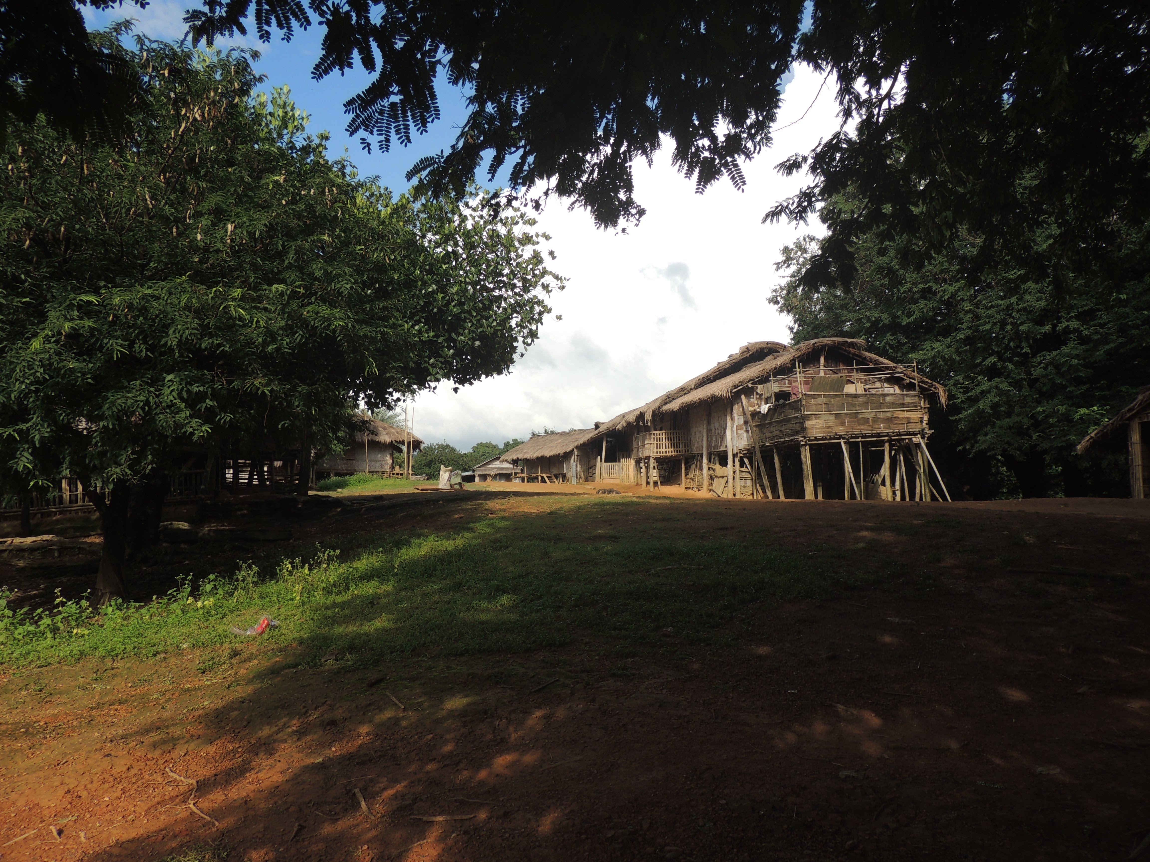 Jurvarongpara - a remote hilly village in Bandarban. Detail expedition